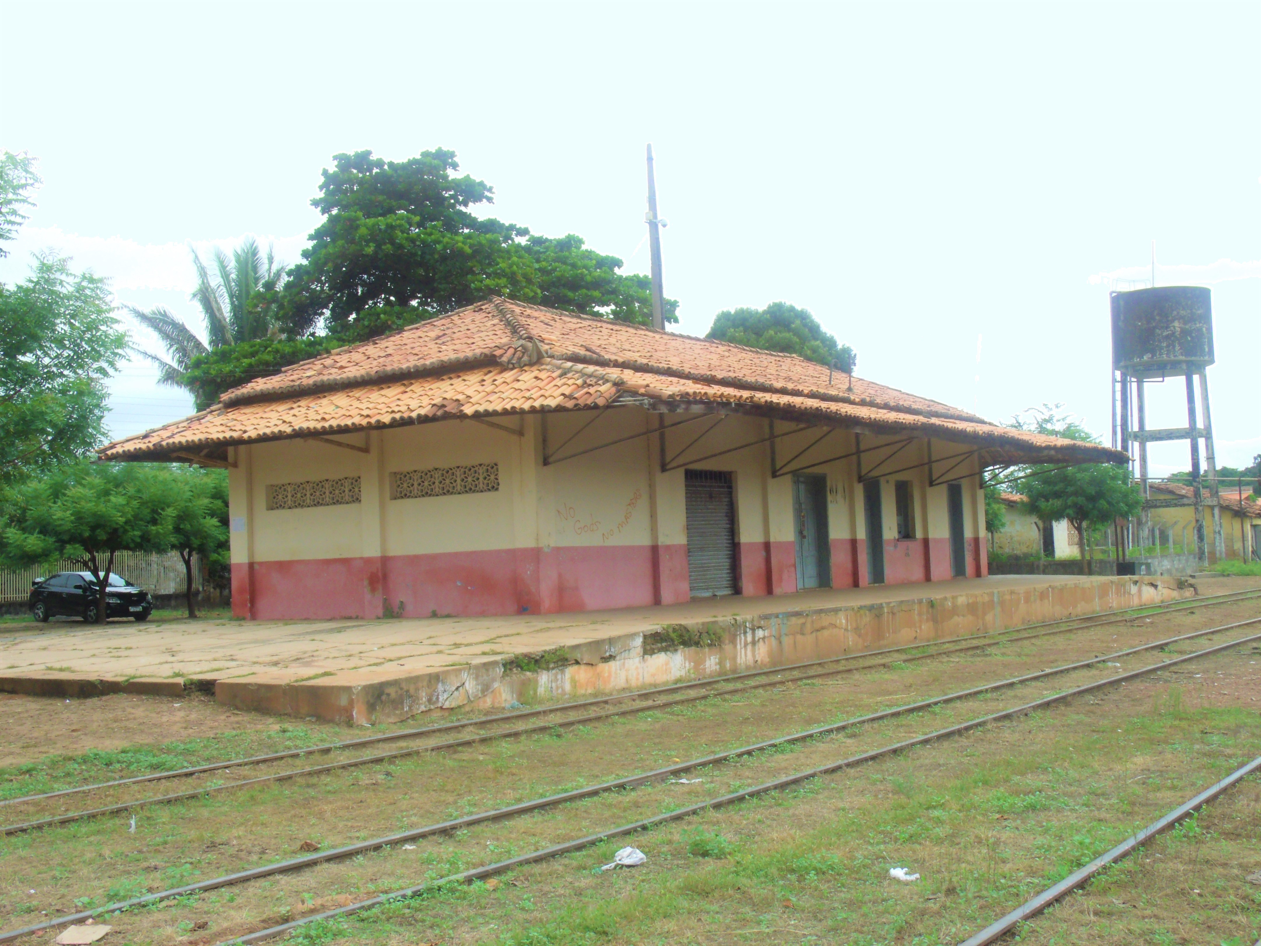 Train stations in Altos, Piauí